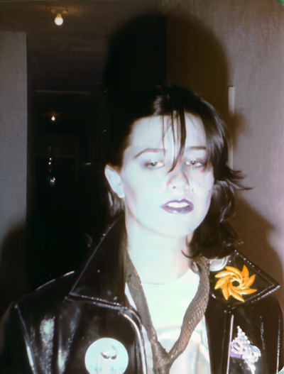 Kira Roessler in a Canterbury hallway, way before she became the bassist for Black Flag and later, Dos.